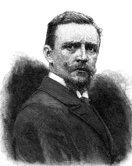 Portrait of the german painter Carl Vinnen (1863–1922).